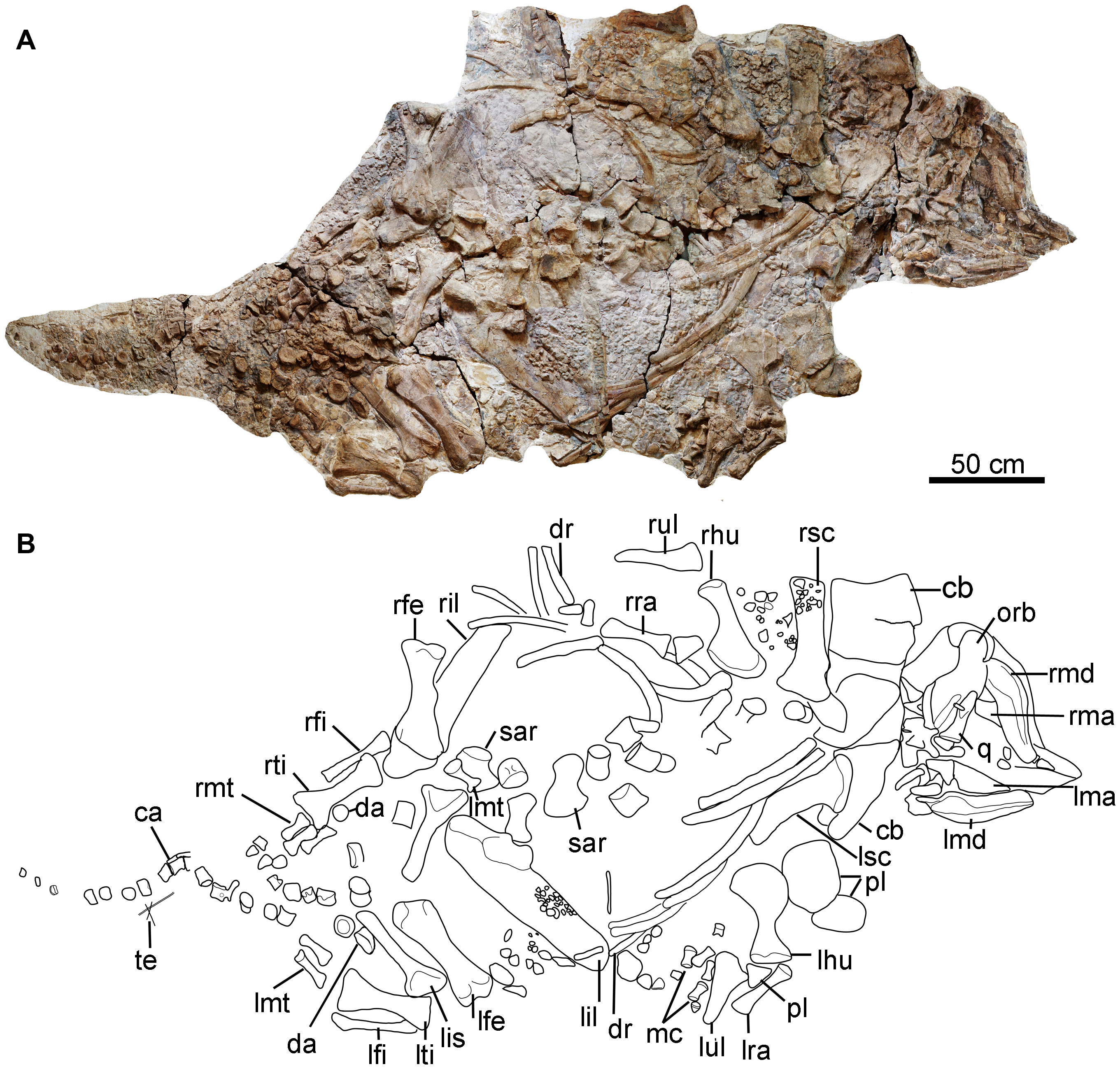 Photograph and outline drawing of the skeleton of Chuanqilong chaoyangensis. A, photograph; B, outline drawing. Abbreviations: ca, caudal vertebrae; cb, cervical band; da, dermal armor; dr, dorsal rib; lfe, left femur; lfi, left fibula; lhu, left humerus; lil, left ilium; lis, left ischium; lma, left maxilla; lmd, left mandible; lmt, left metatarsal; lra, left radius; lsc, left scapula; lti, left tibia; lul, left ulna; mc, metacarpals; orb, orbital; pl, plates; q, quadrate; rfe, right femur; rfi, right fibula; rhu, right humerus; ril, right ilium; rma, right maxilla; rmd, right mandible; rmt, right metatarsals; rra, right radius; rsc, right scapula; rti, right tibia; rul, right ulna; sar, sacral rib; te, tendons. [planned for page width].